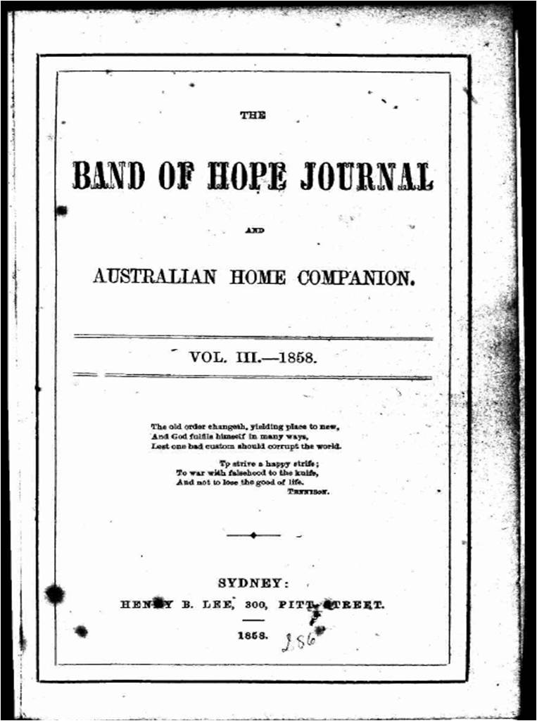 Coverpage of a historic newspaper from New South Wales, Australia.